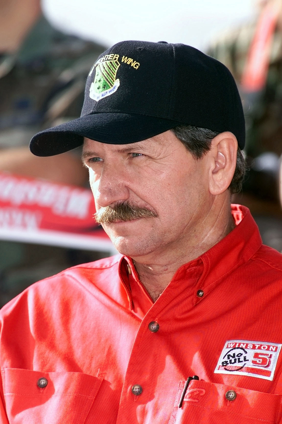 Seven time NASCAR Winston Cup Champion, Dale Earnhardt, waits for his chance to load missiles onto an F-15 Eagle aircraft (not shown). Earnhardt was participating in a load crew competition at Langley Air Force Base, Virginia. Location: LANGLEY AIR FORCE BASE, VIRGINIA (VA) UNITED STATES OF AMERICA (USA)